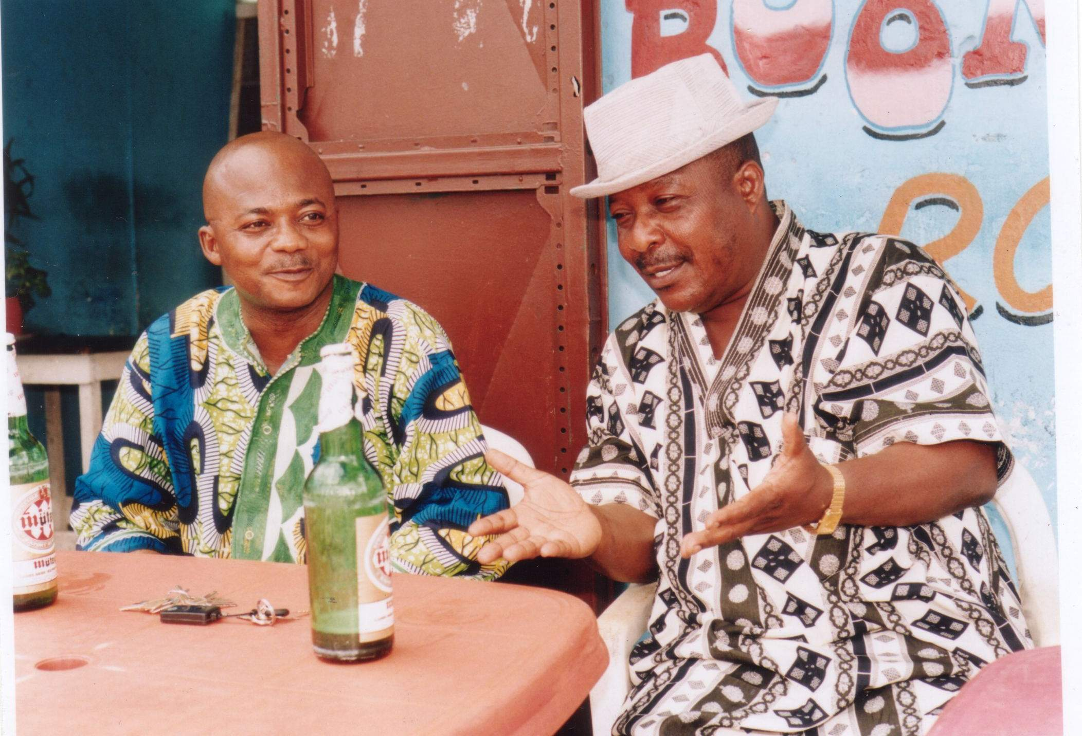 This is an image with the theme "Africa on the Move or Transport" from: Congo